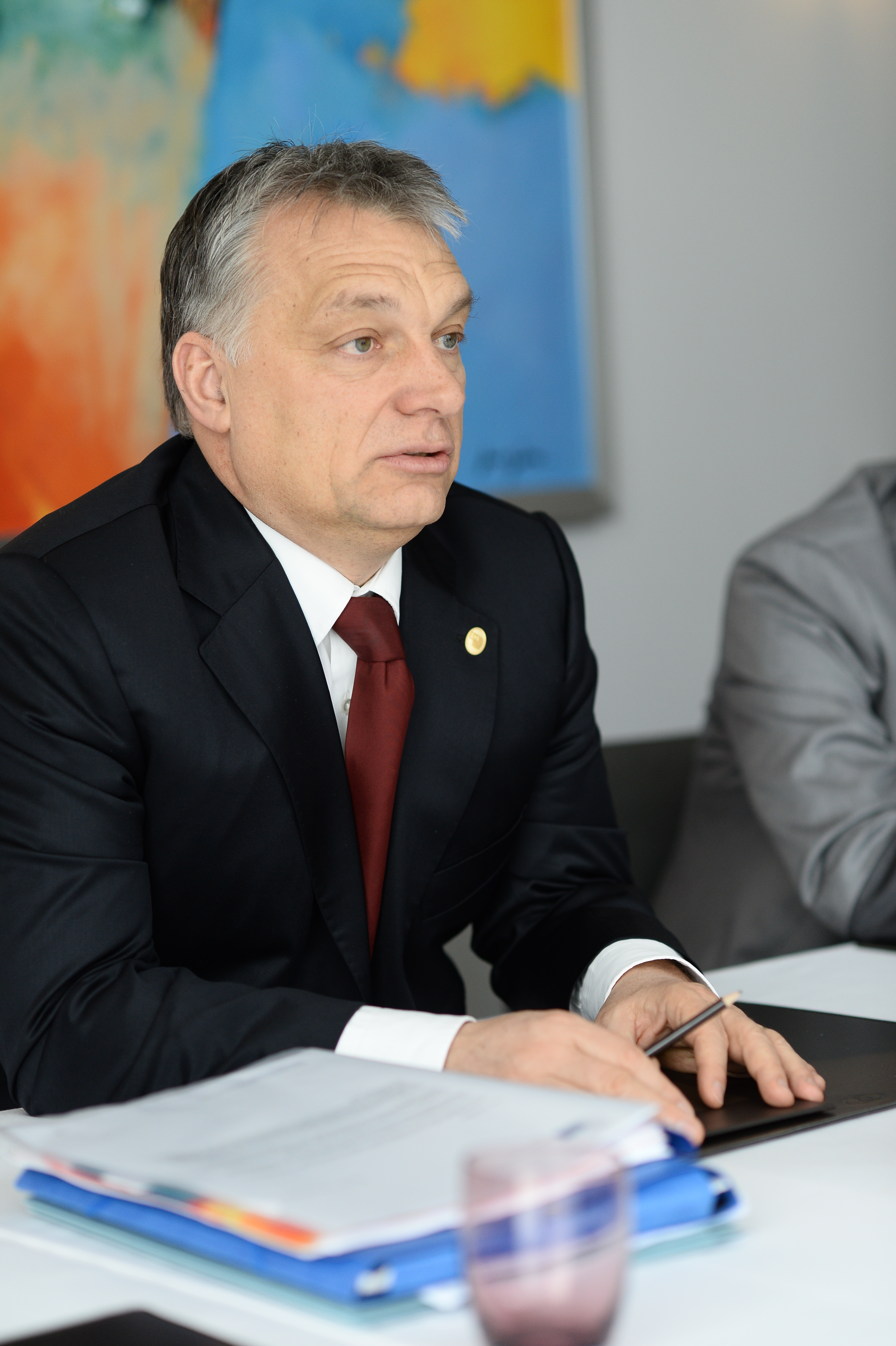 Viktor Orbán EPP Summit, Brussels, February 2016